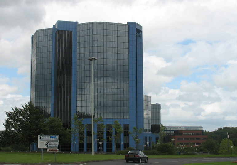 The Darby House building, located in Telford, England. Photo taken by Chris Bayley using a Canon Powershot A610.